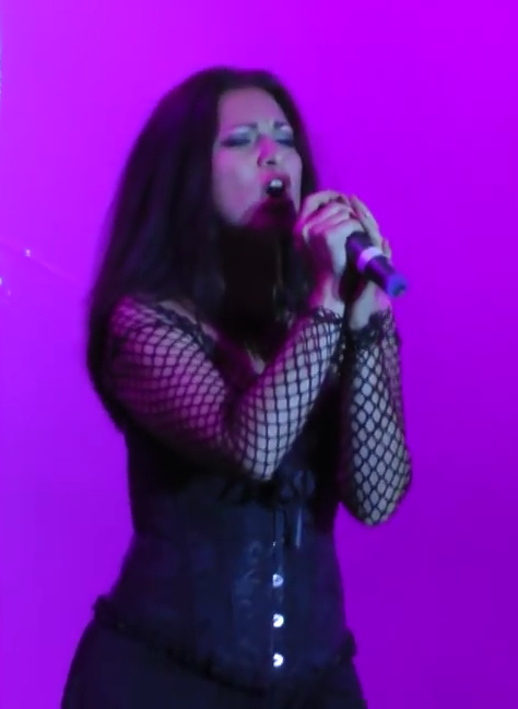 Emmanuelle Zoldan in kRock u Majbutne Festival in Kherson, Ukraine, 2016-06-17